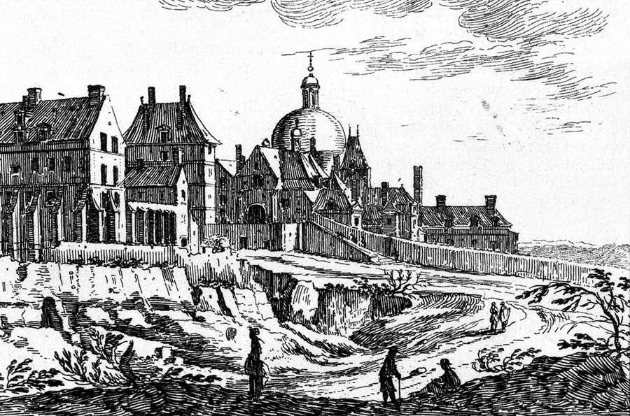 The chapelle des Martyrs of Montmartre Abbaye